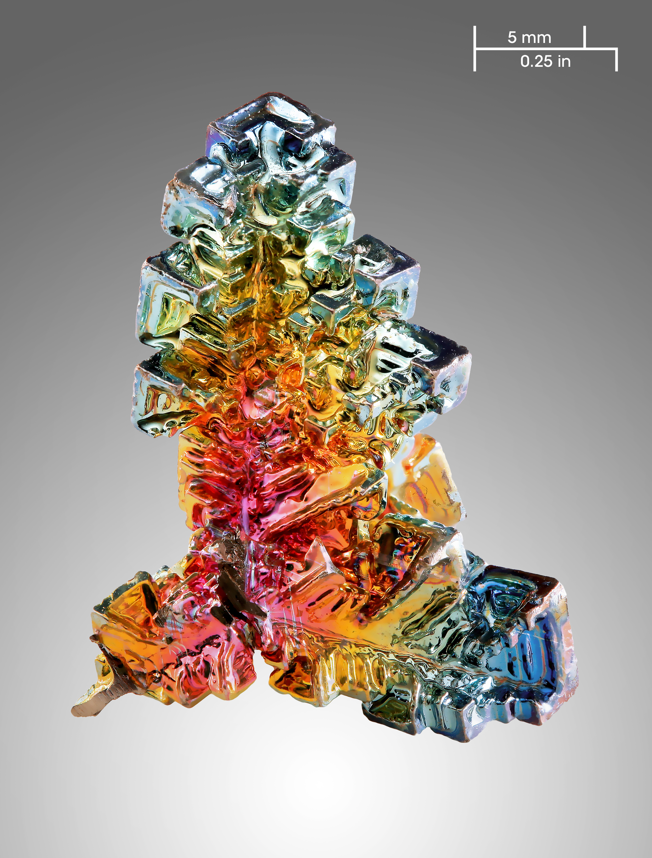 The chemical element bismuth as a synthetic made crystal. The surface is an iridescent very thin layer of oxidation.